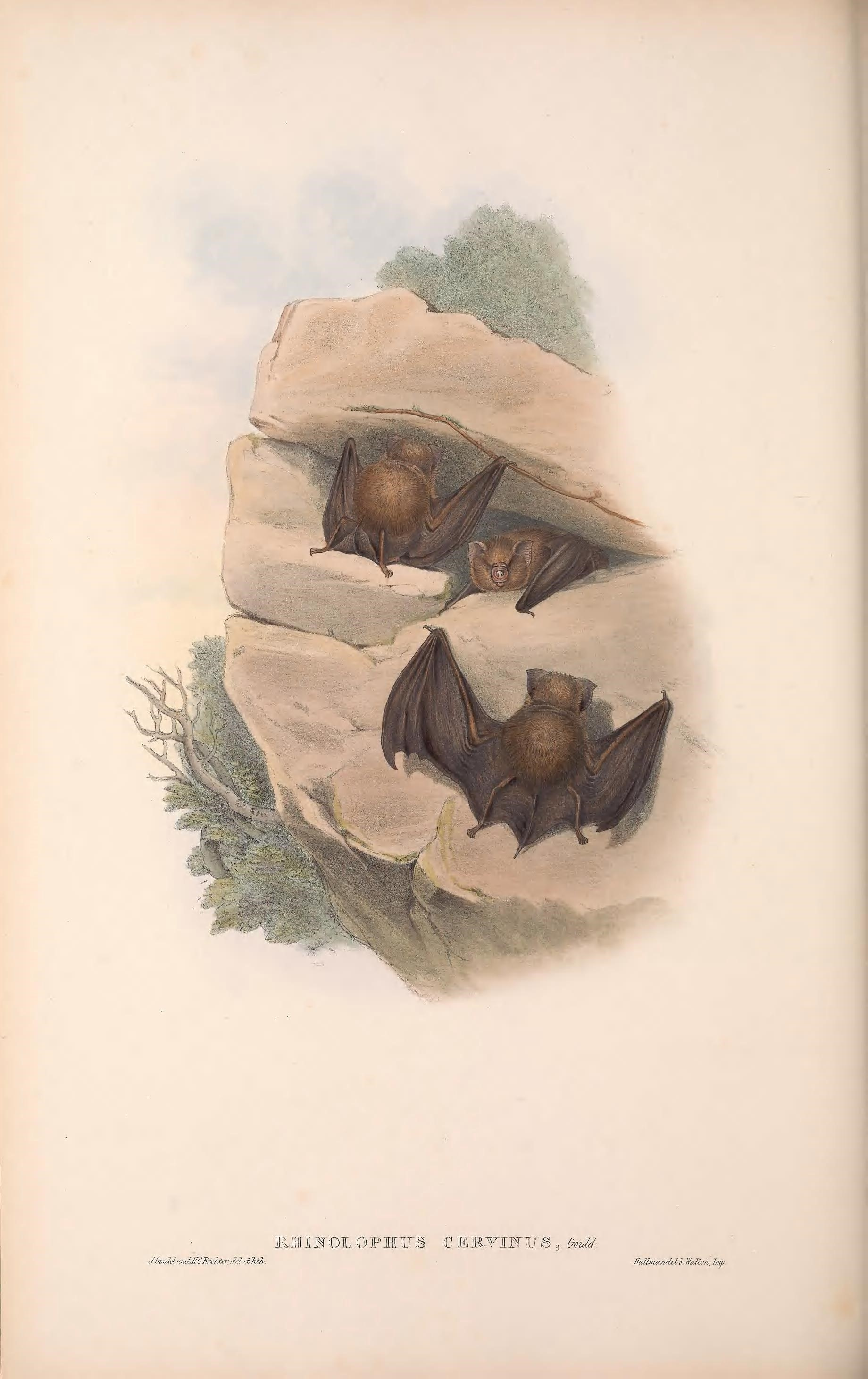 Plate in Gould's Mammals of Australia volume 3. The title is the caption in that work, and may be a synonym. The file was uploaded with the current name in the category, a crop and other adjustments were made to the image. The caption and other details were removed.